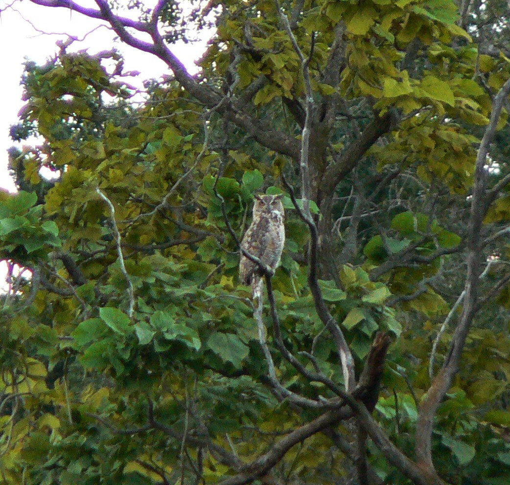 Great Horned Owl